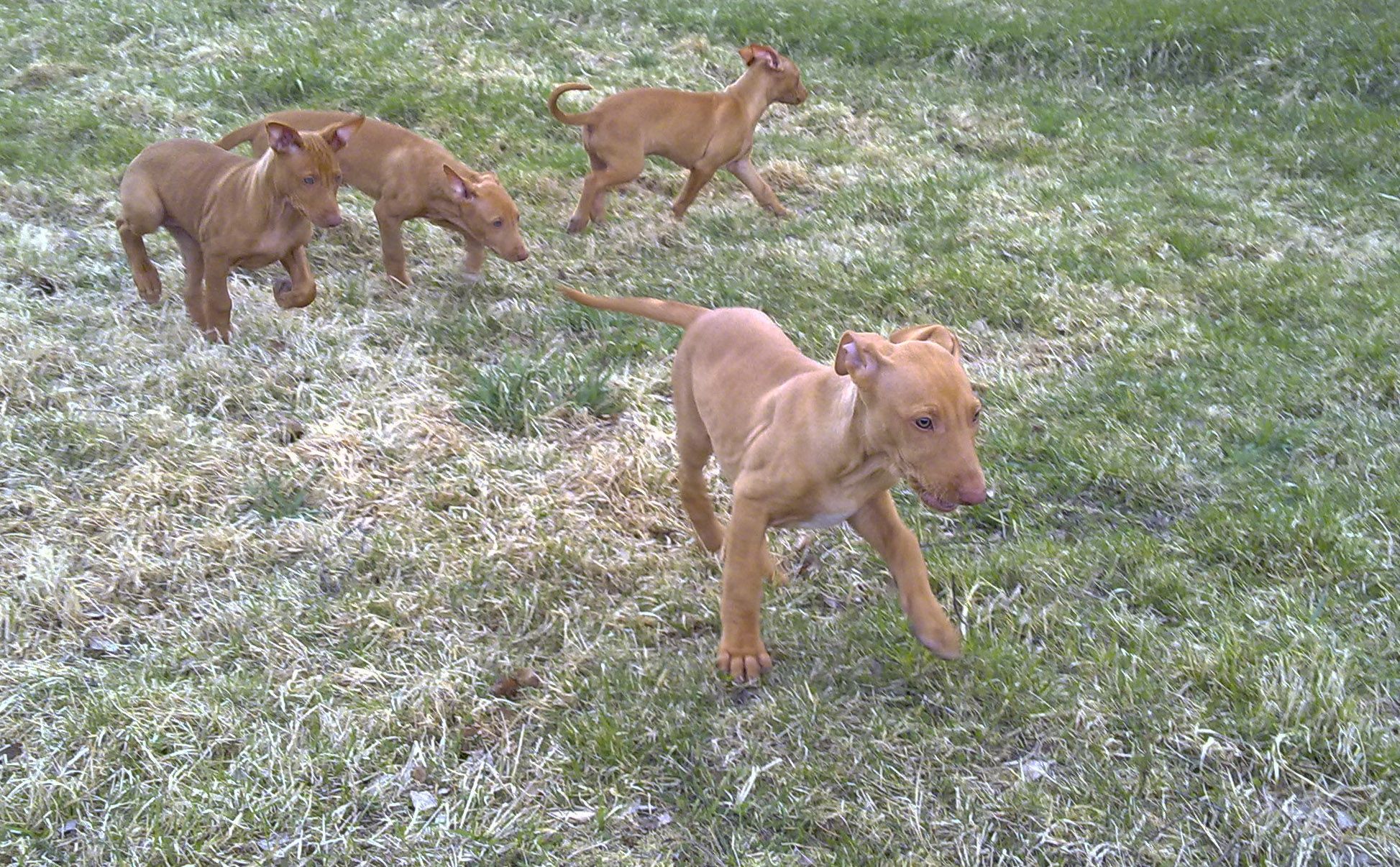 Pharaoh Hound cubs.